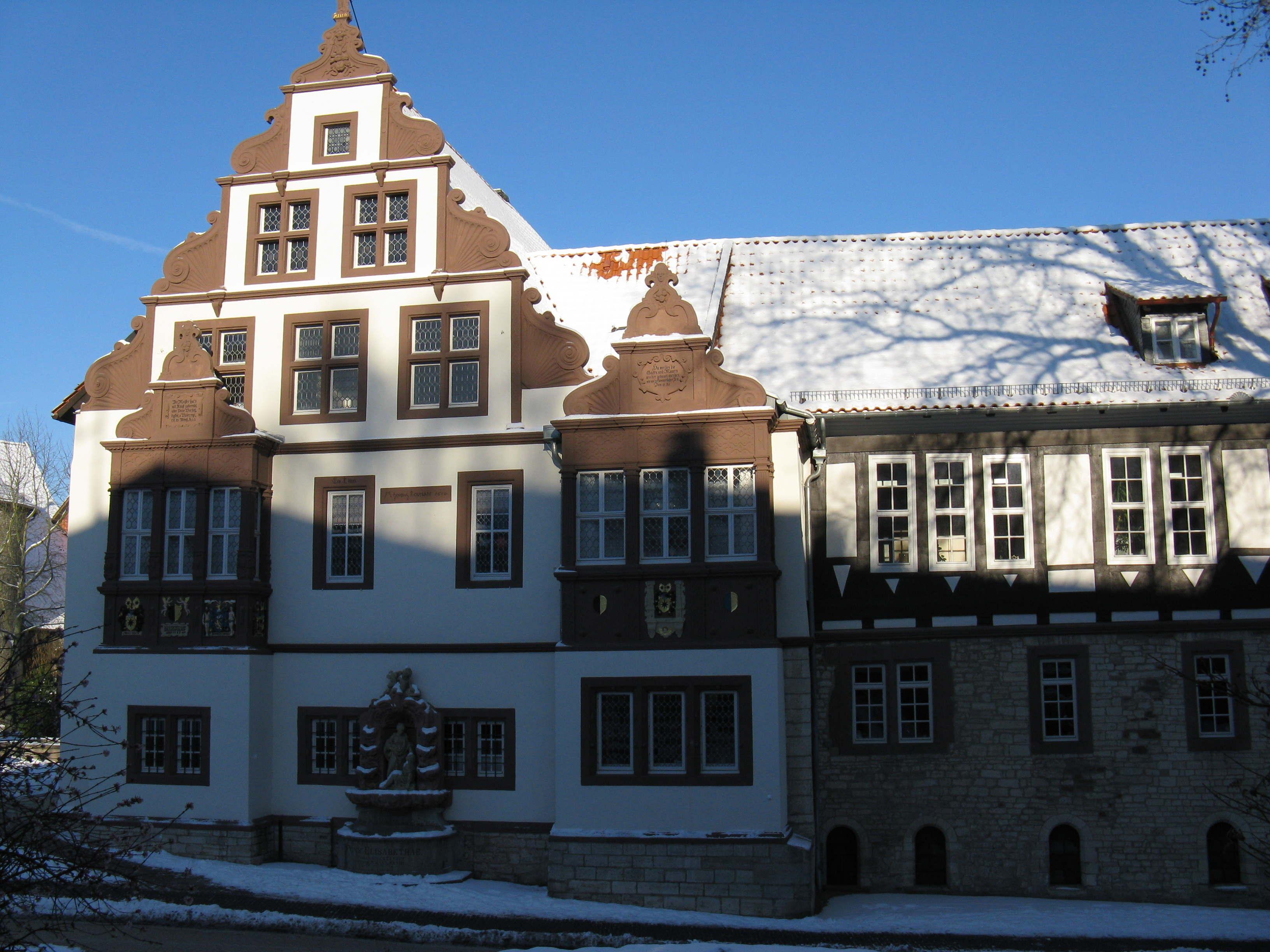 Bad Gandersheim - Abbey